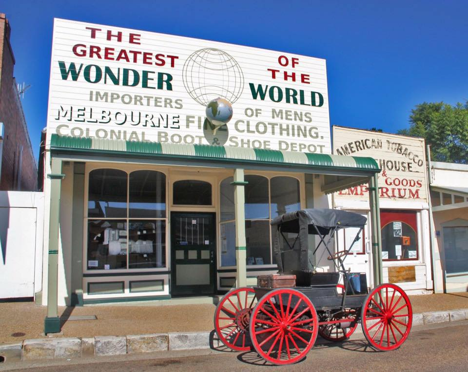 Gulgong Holtermann Museum façade restored according to design by Jiri Lev